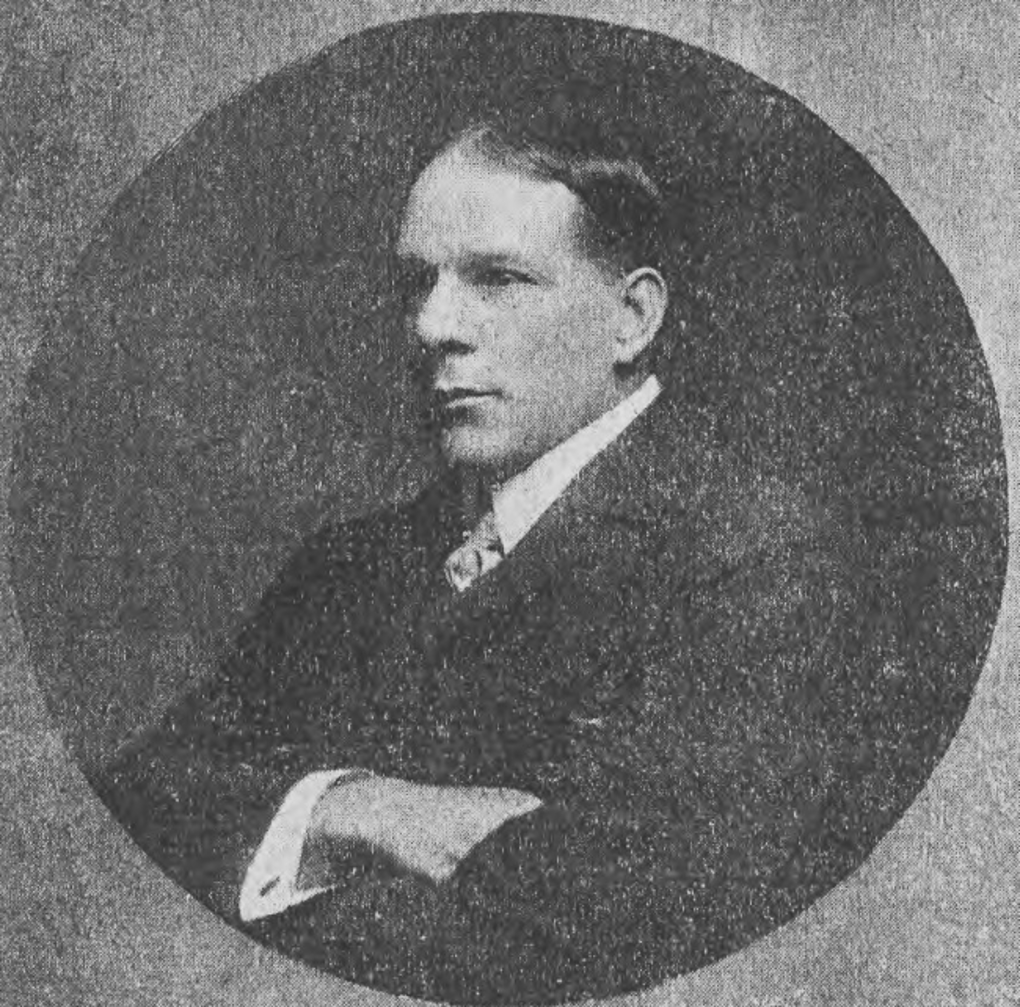 Welsh international and London Welsh rugby player Dr T J Pryce-Jenkins